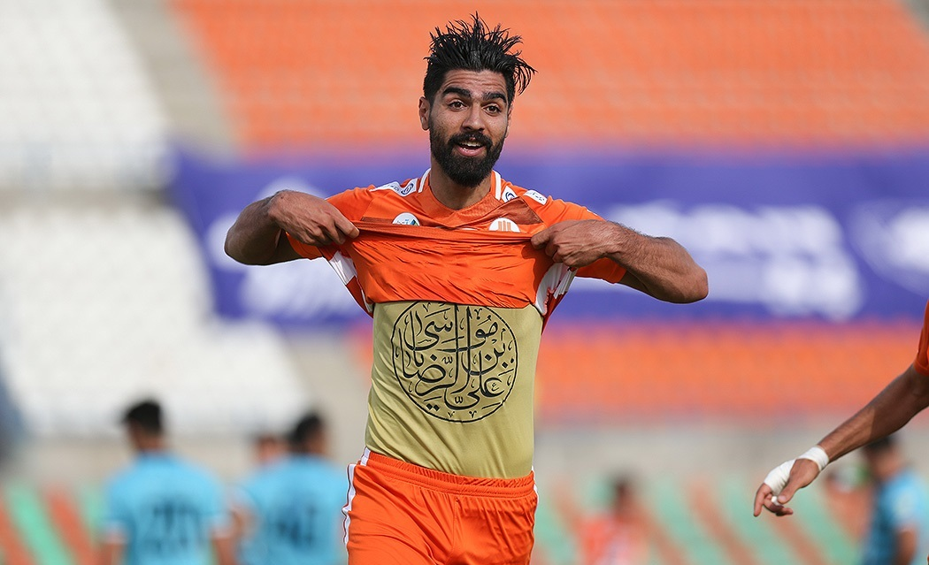 Peykan vs Saipa, Iran pro league - 27 April 2018. main album